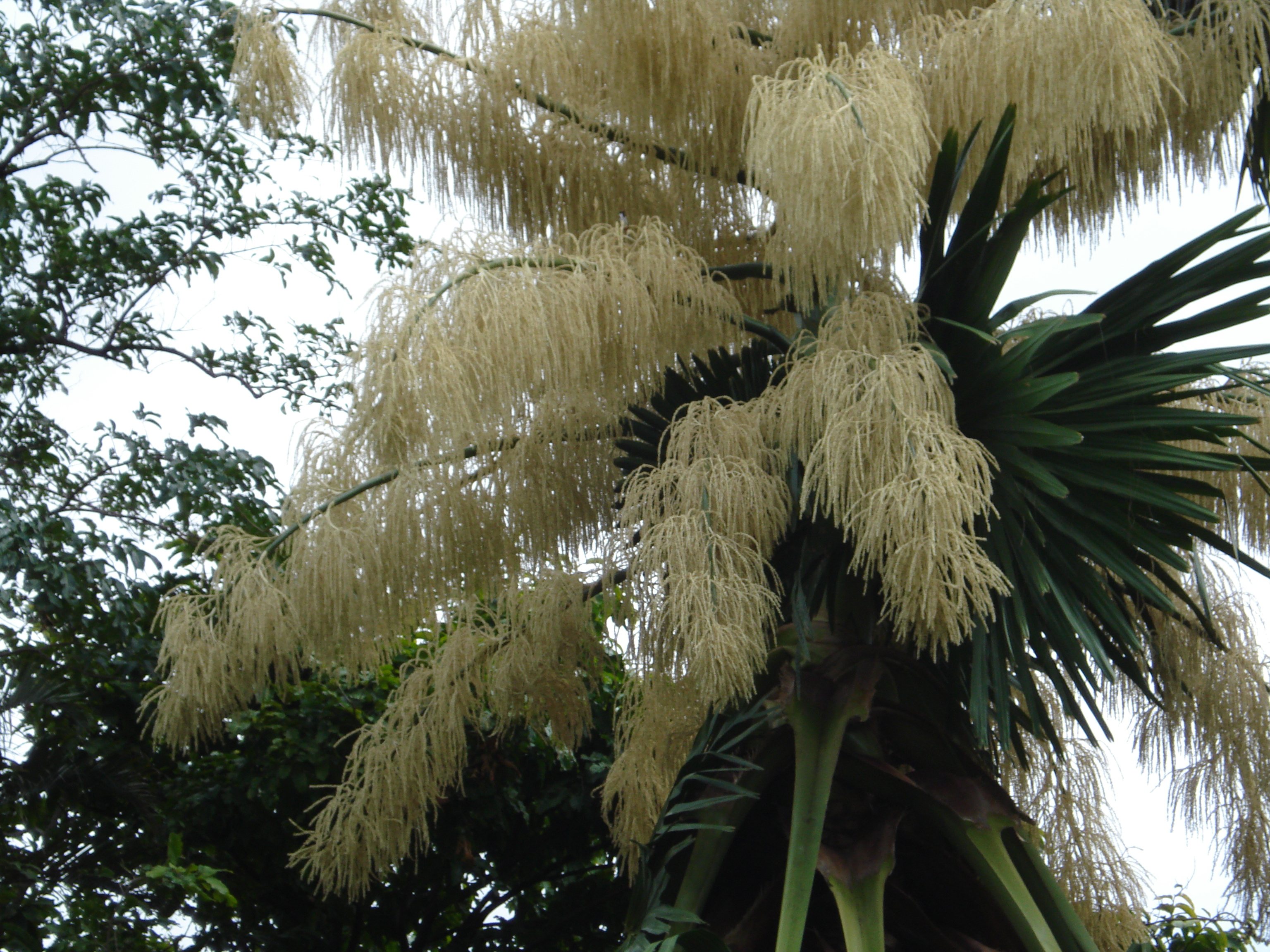 Flowering Talipot Palm at Foster Botanical Gardens, Honolulu, Hawaii